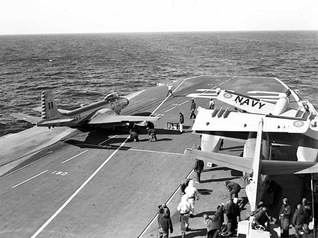 A Royal Canadian Navy McDonnell F2H-3 Banshee is positioned on the steam catapult of the aircraft carrier HMCS Bonaventure (CVL 22), in 1957.